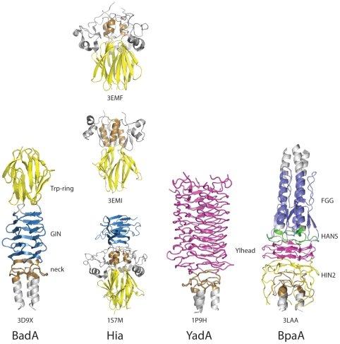 Comparison of Trimeric Autotransporter Adhesin Head Domains